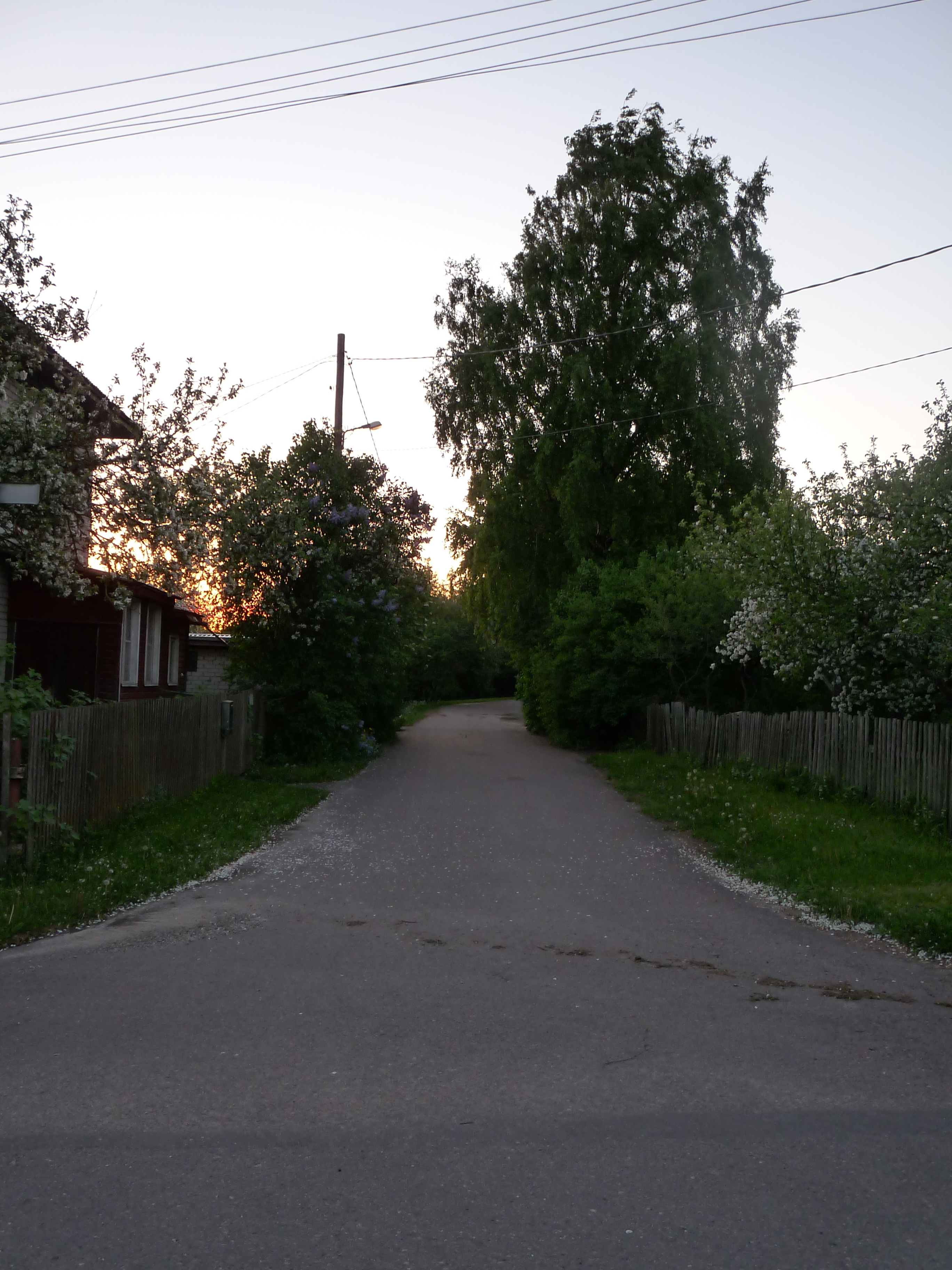 Vaate side road in Tallinn, Estonia